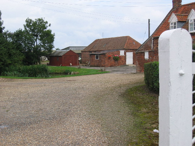 Hill Farm, Marton, East Riding of Yorkshire, England.Looking north to Hill Farm. This area is all farmland.